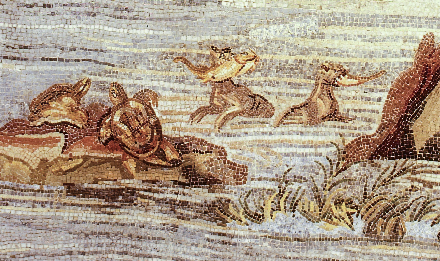 Detail of Nile mosaic from Palestrina (section 4). Museo Nazionale Palestrina, Italy.